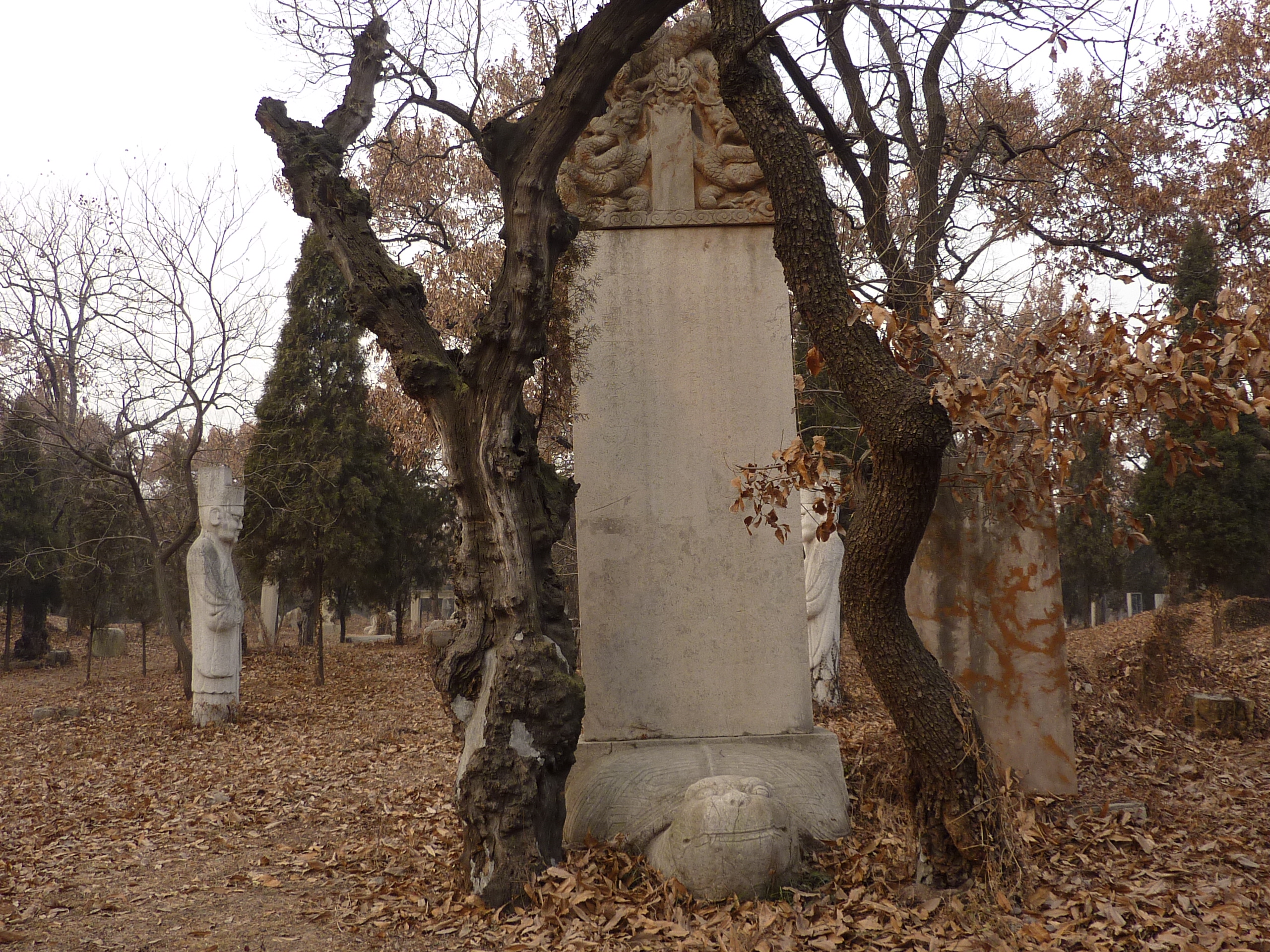 The area in the Ming (western) part of the Cemetery of Confucius where Dukes of Yansheng, who were the leaders of the Kong clan (55th through 64th generations in the direct line of descent from Confucius, according to an explanatory plaque) and the feudal rulers of Qufu, have been buried. Each of the dukes has his own "spirit road" (shendao), i.e. a a path lined with the statues of feline creatures (cat? lions? tigers?), rams, horses, warriors and officials, concluded with a stele-bearing bixi tortoise, and, finally, the actual tombstone. As elsewhere in China, the tombstones and the bixi normally face south, while the spirit way figures face each other, looking across the path that runs from the south to the north.